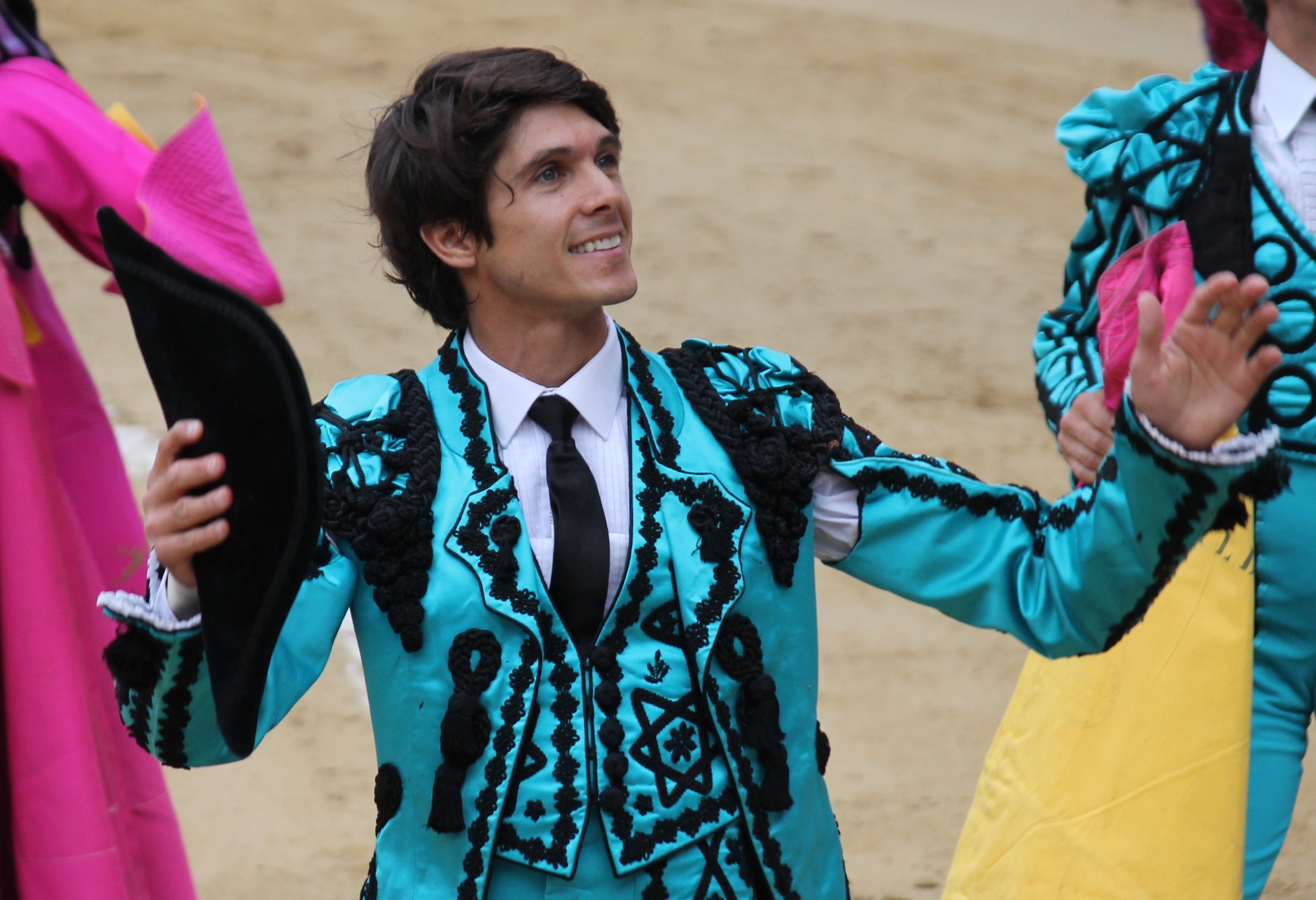 Sebastian Castella en Bogotá, 24 de febrero de 2019